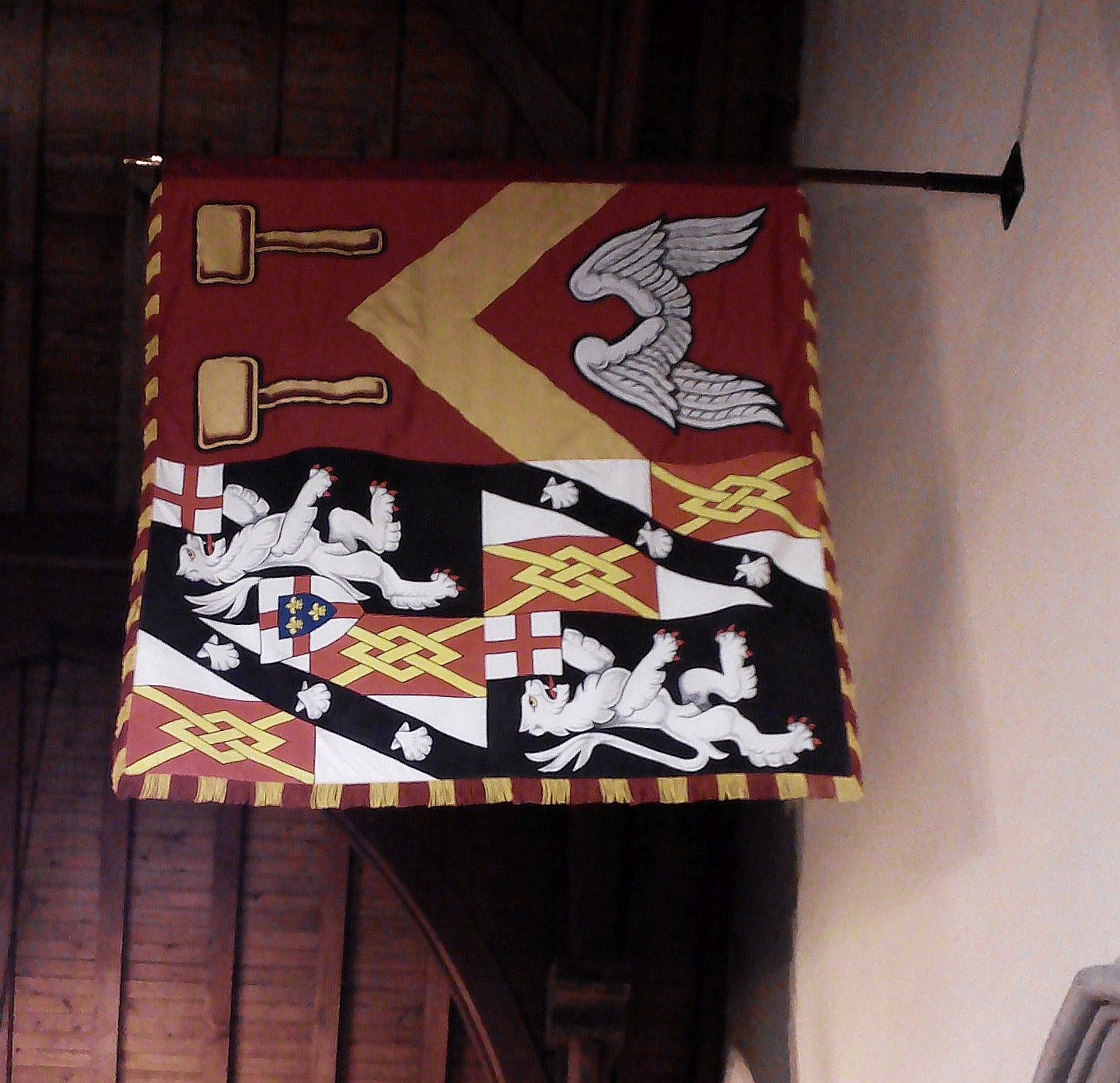 Bladon, Oxfordshire - St Martin's Church - Garter banner of Mary Soames, Baroness Soames, one of Prime Minister Churchill's daughters